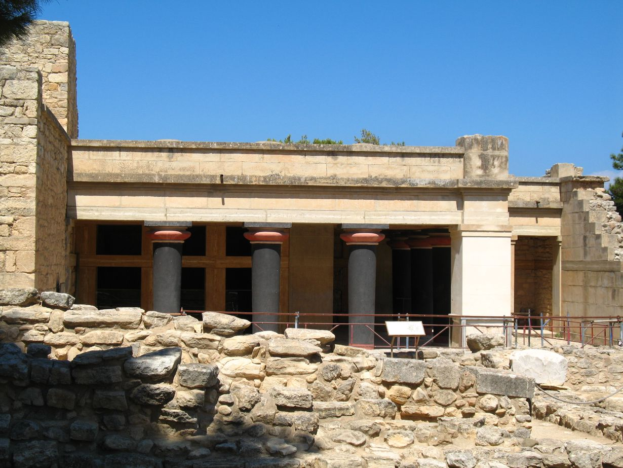 Кносский дворец